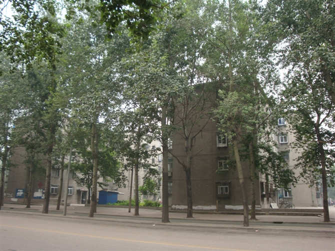 Tangshan urban area, Hebei